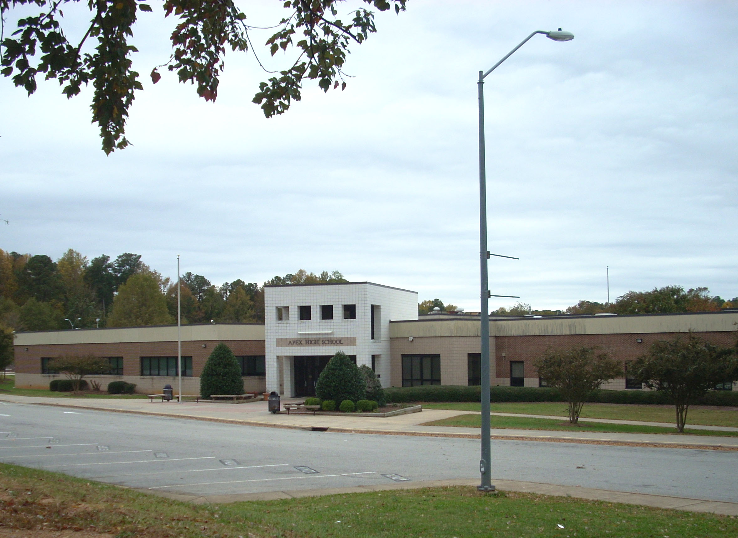 Front entrance of Apex High School.